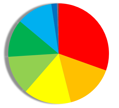 Expressed as a pie chart in the Tokyo gubernatorial election in 1999, the number of votes for each candidate. explanatory notes ■ - Shintaro Ishihara ■ - Kunio Hatoyama ■ - Yoichi Masuzoe ■ - Yasushi Akashi ■ - Mitsuru Mikami ■ - Koji Kakizawa ■ - Dr. NakaMats ■ - Yoshifumi Miyazaki ■ - Toshio Kawakami ■ - Hashiba Sezo Hideyoshi ■ - Bunji Sato ■ - Shoji Suzuki ■ - Kazuo Ishida ■ - Hiroyuki Suzuki ■ - Shinichi Oyama ■ - Hideki Nakagawa ■ - Yoshiaki Oami ■ - Nobuaki Tsuda ■ - Shoichi Tateoka